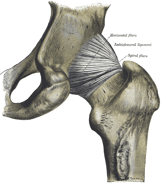 The hip-joint from behind. (Quain.)